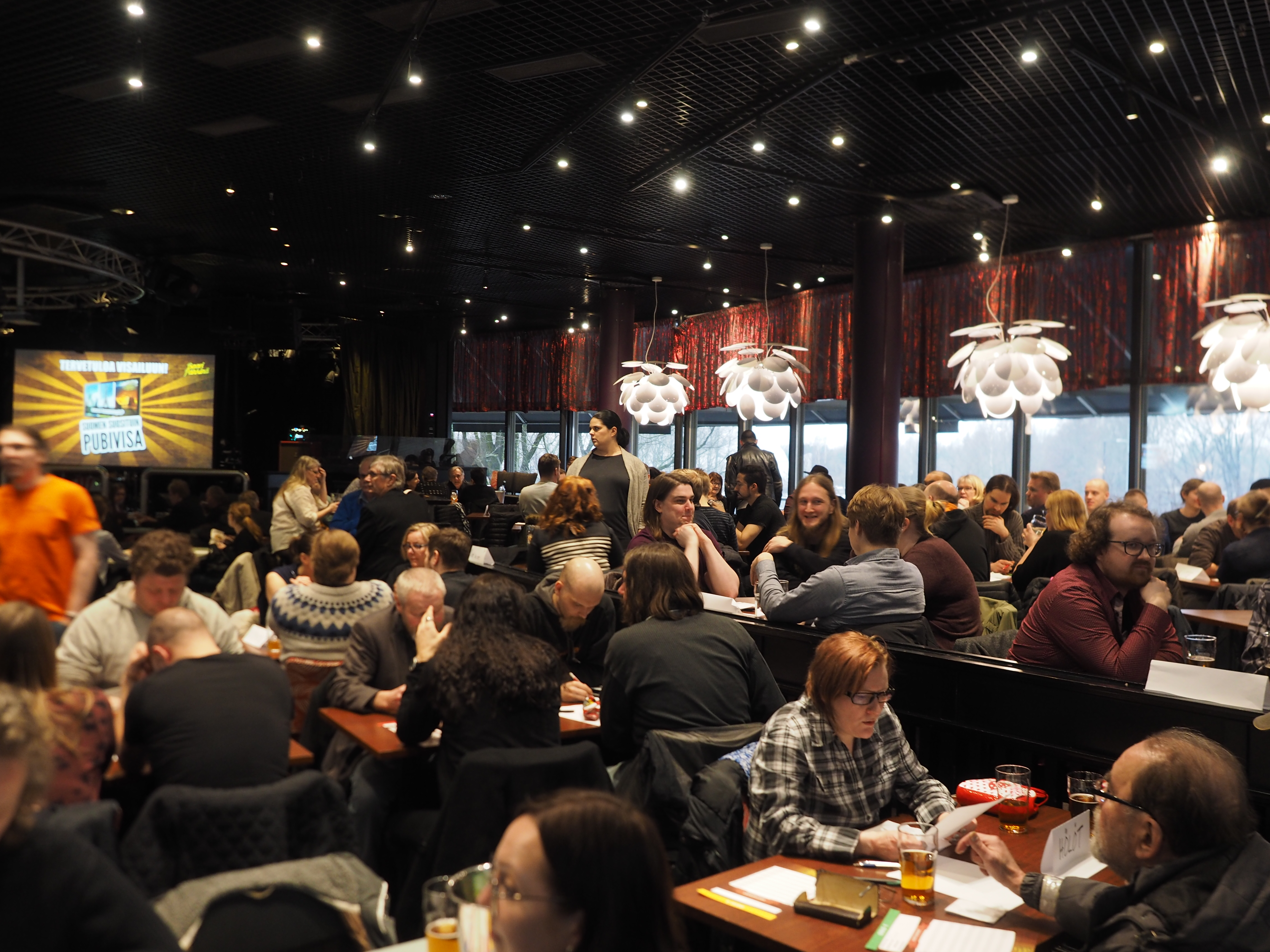 People playing at the pub quiz Finnish championships 2019 at Sokos Hotel Vantaa in Tikkurila, Vantaa, Finland.